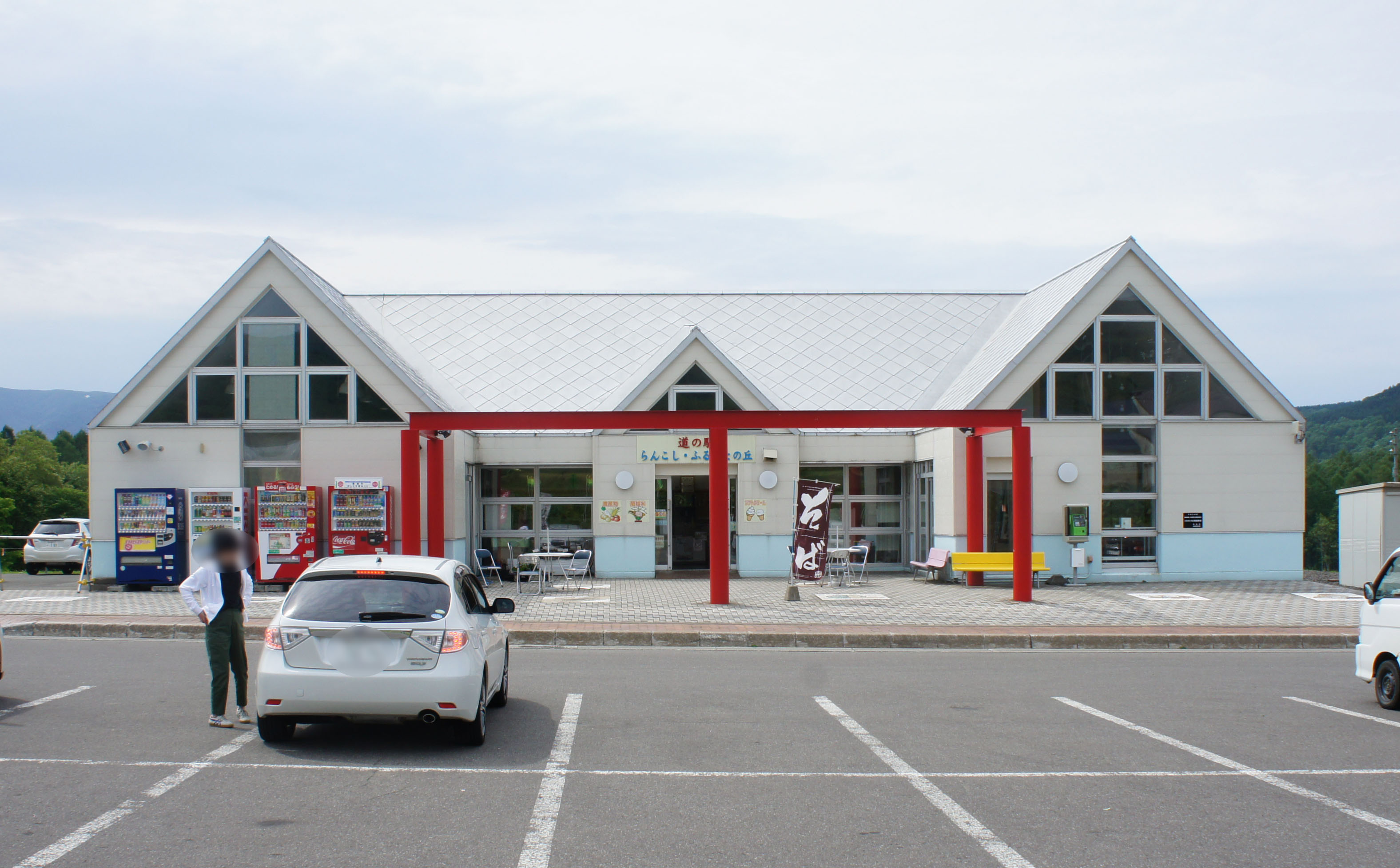 A view of the Michinoeki Rankoshi・Furusatonooka in Rankoshi Town, Hokkaido